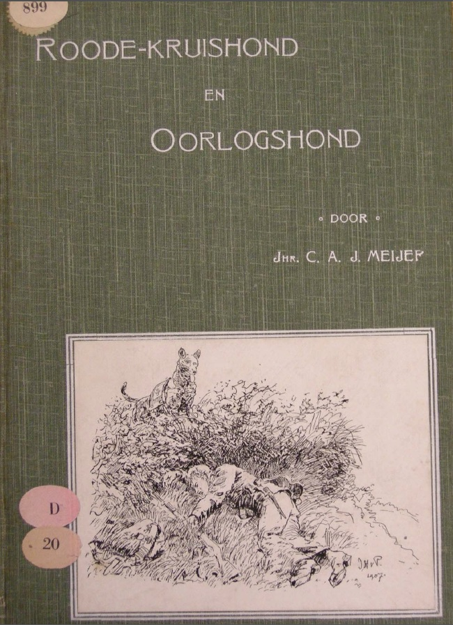 Bookcover Roode-Kruishond en Oorlogshond (1907)